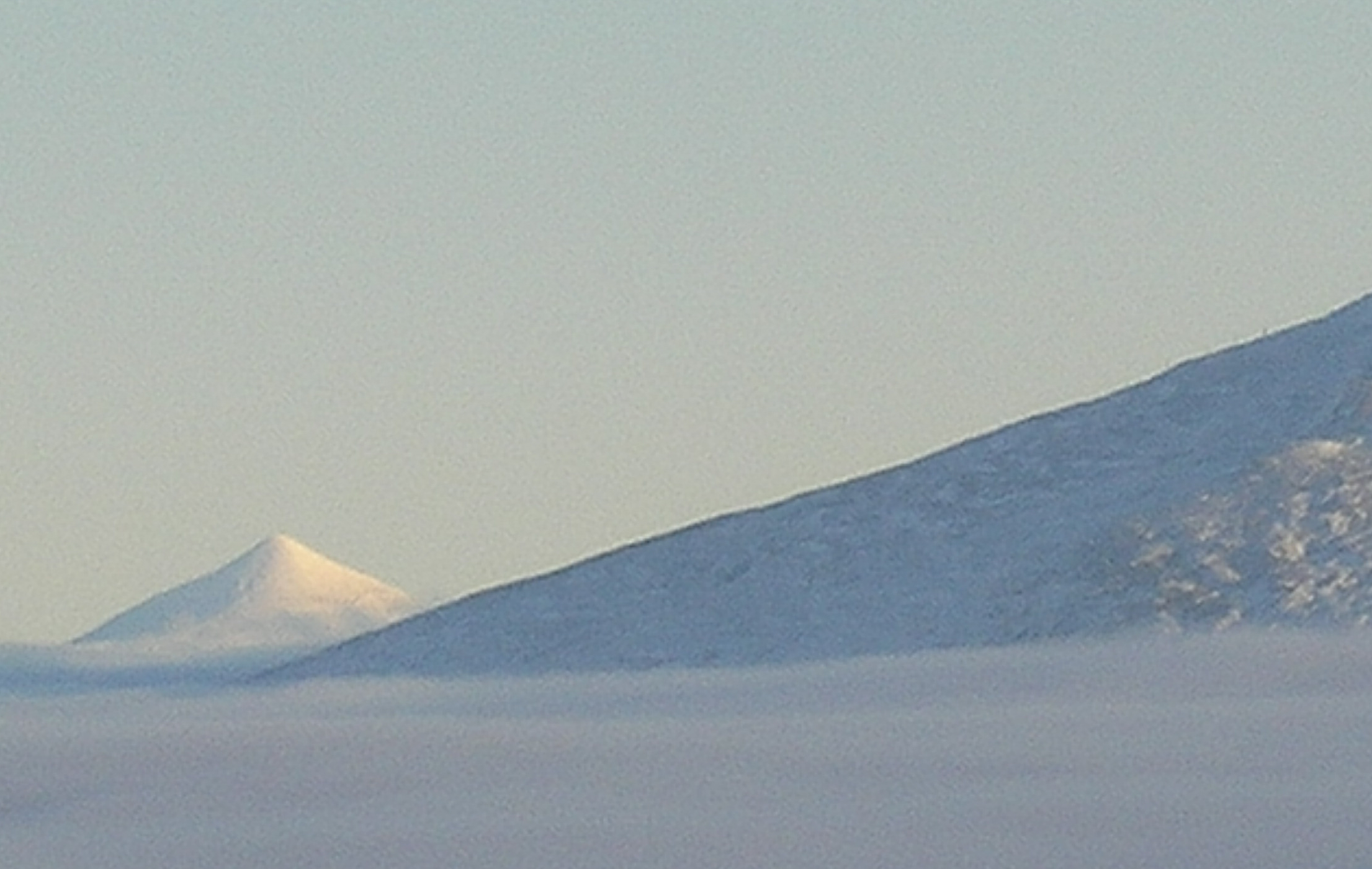 Elgspiggen behind Tron